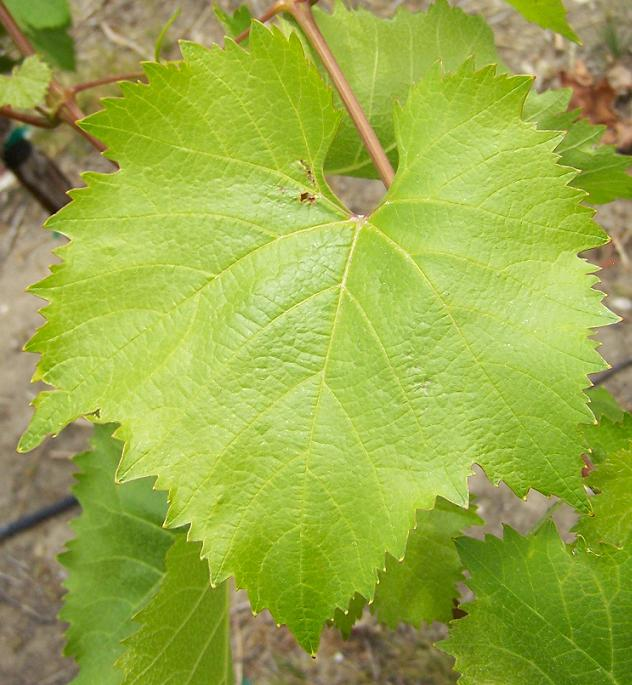 Tinta Cao leaf from Hedges vineyards in Red Mountain AVA. Image taken Sunday June 10th, 2007 with a kodak z650